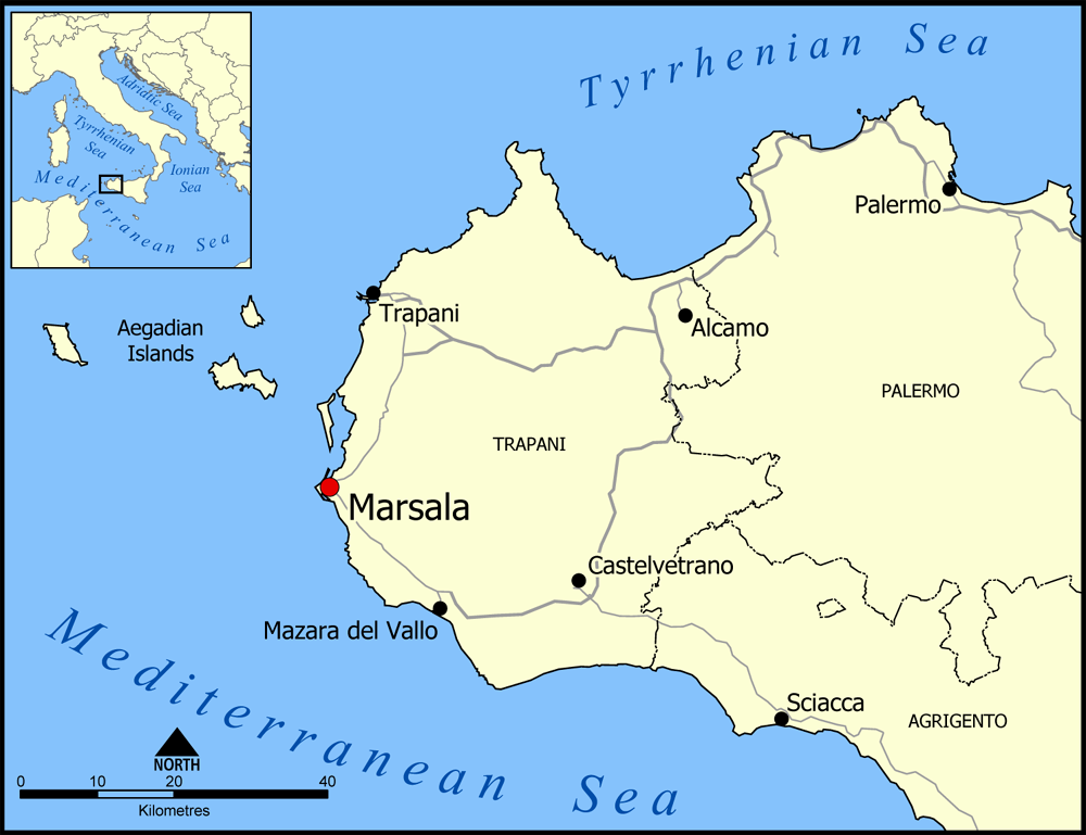 This map shows the location of the Italian city of Marsala on the island of Sicily. Blank version available at Image:Marsala, Italy blank map.png. Created by NormanEinstein, August 19, 2005.